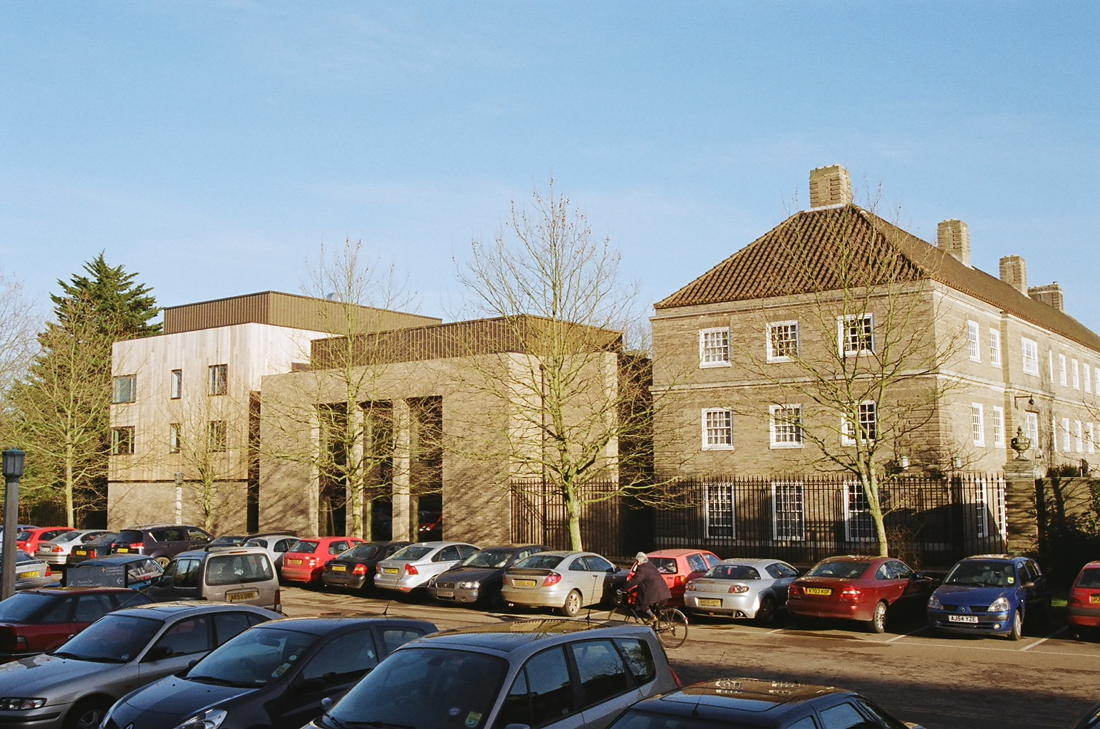 Exterior view from car park of new building addition adjacent to listed Gilbert-Scott memorial court. Opened in 2008 and designed by van Heyningen and Haward Architects.